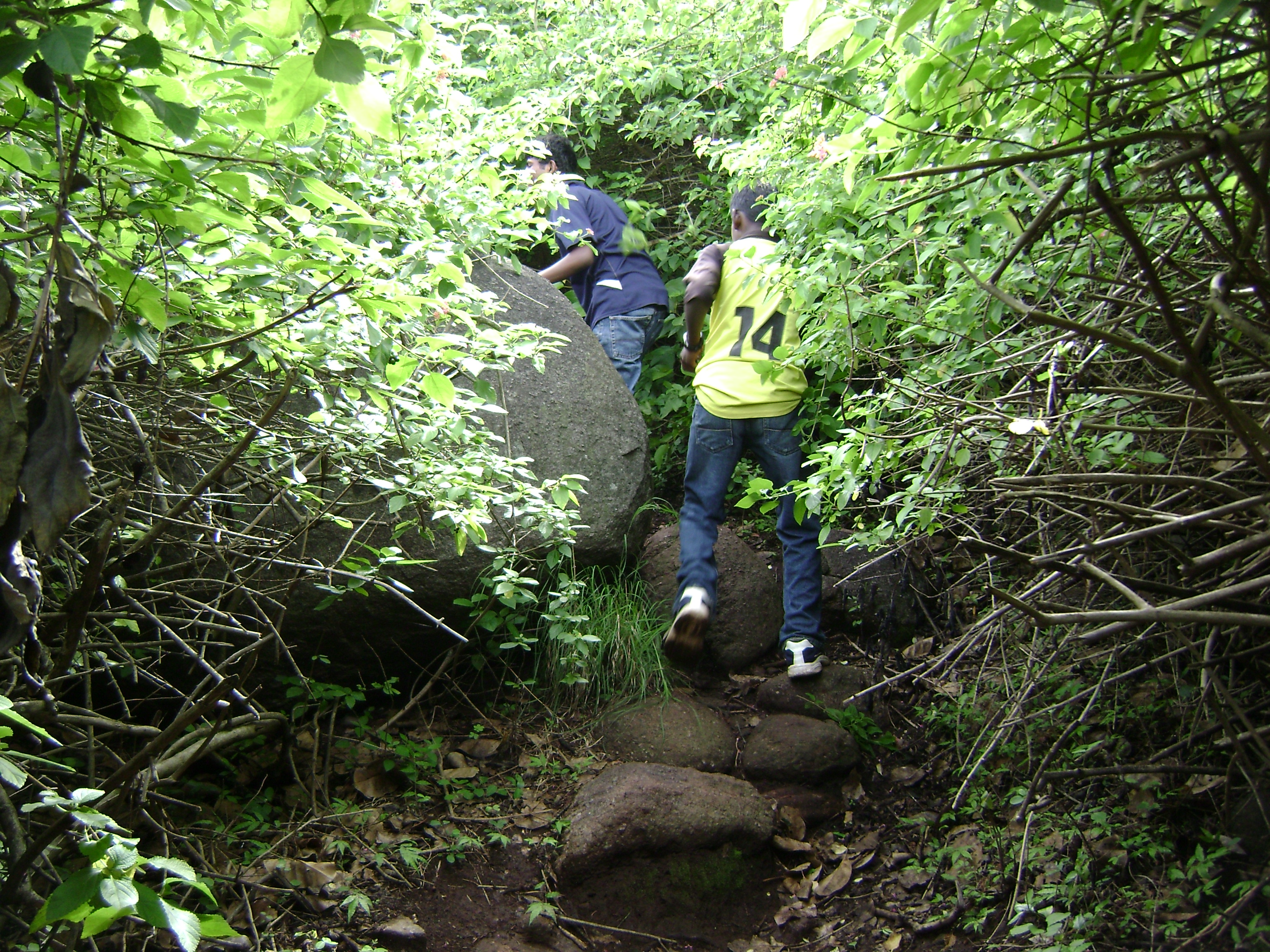 Trekking at Swamimalai, Yelagiri in Tamil Nadu, India